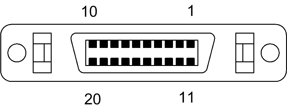 A DFP connector MDR-20 female